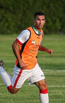 Mehdi Hasheminasab, a member of Iranian Stars football Team playing a practice match.